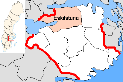 Eskilstuna Municipality in Södermanland County Designd by me, based on Image:Södermanland County.png